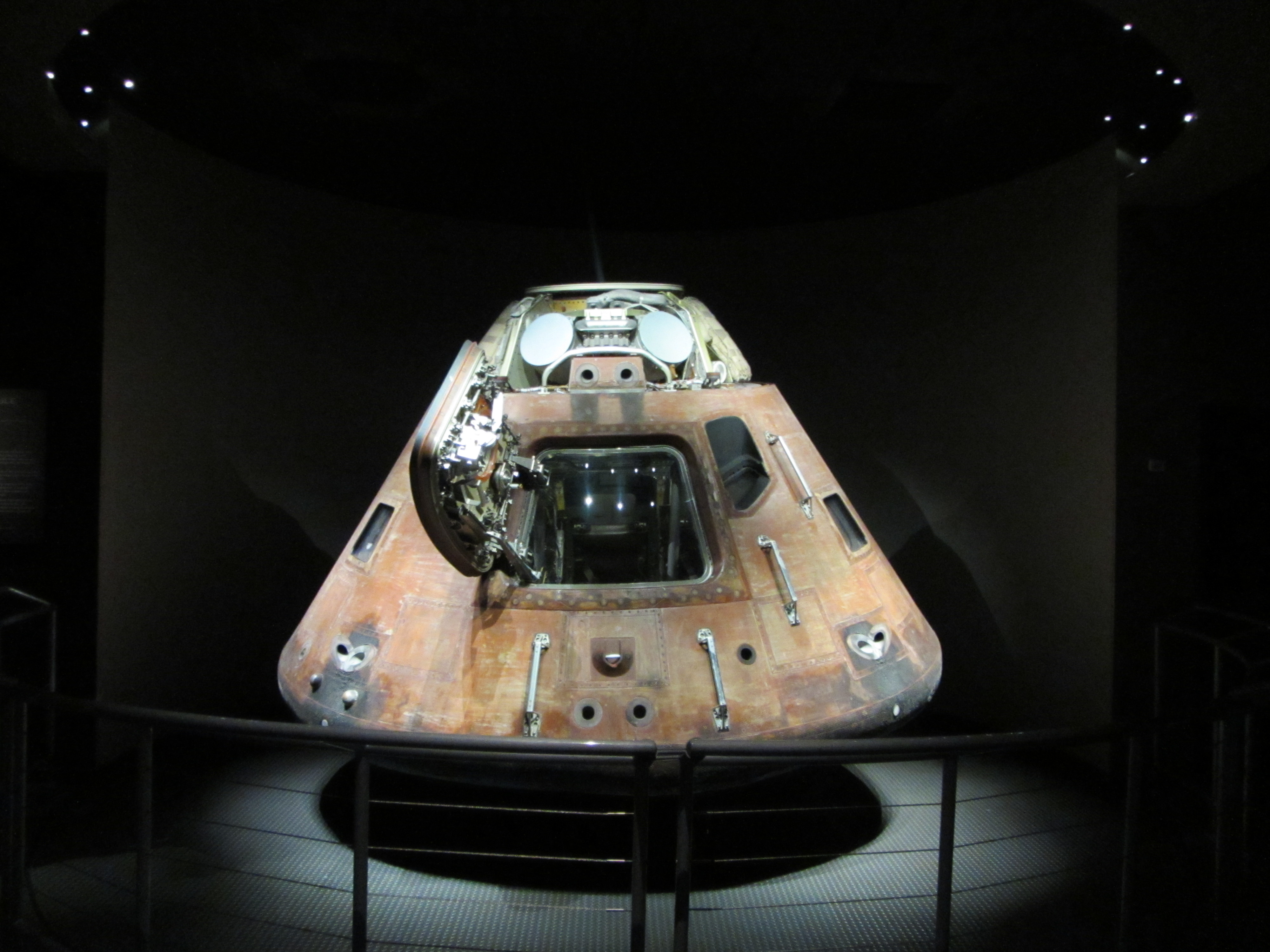 CSM-110 Apollo 14 AS-509 Kitty Hawk at Apollo Saturn V Center, Kennedy Space Center, FL